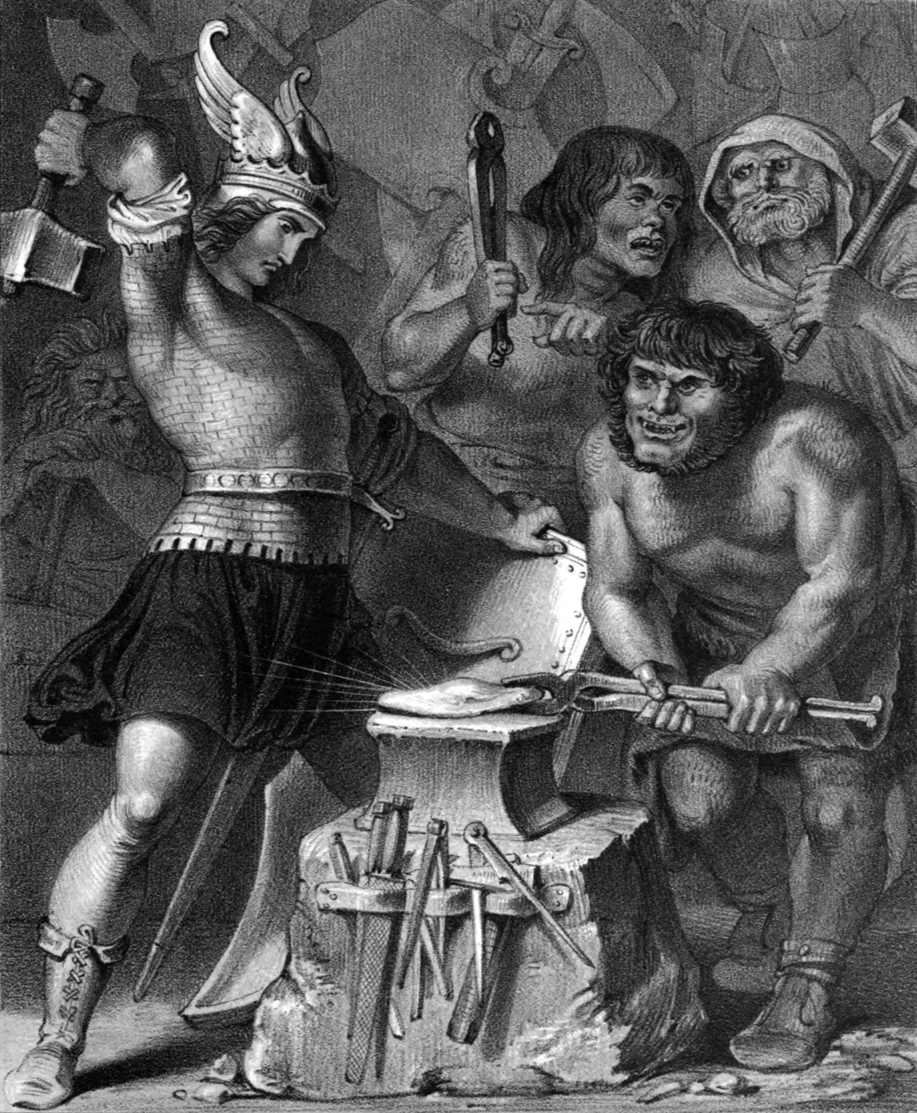 Siegfried forges a sword with the help of Mimer.